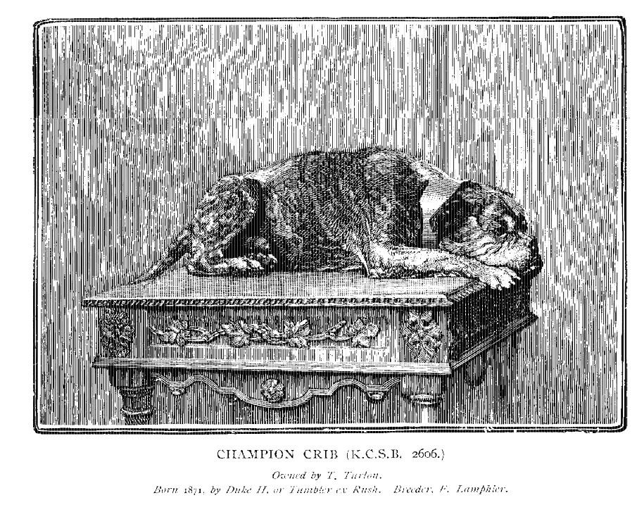 Turton's Crib (English Bulldog)